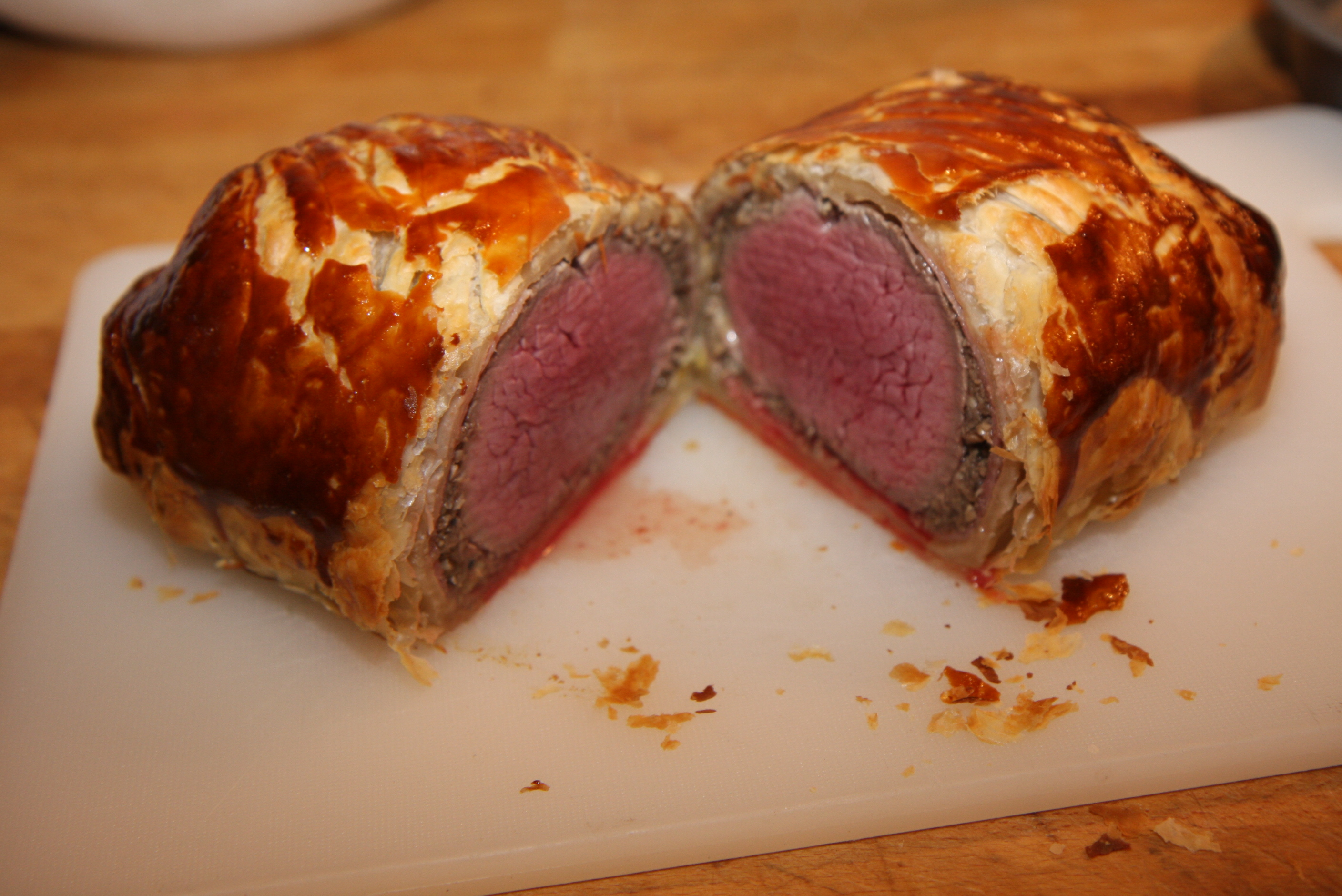 Winston Churchill's favourite recipe: Step-by-step photographs, including making duxelles